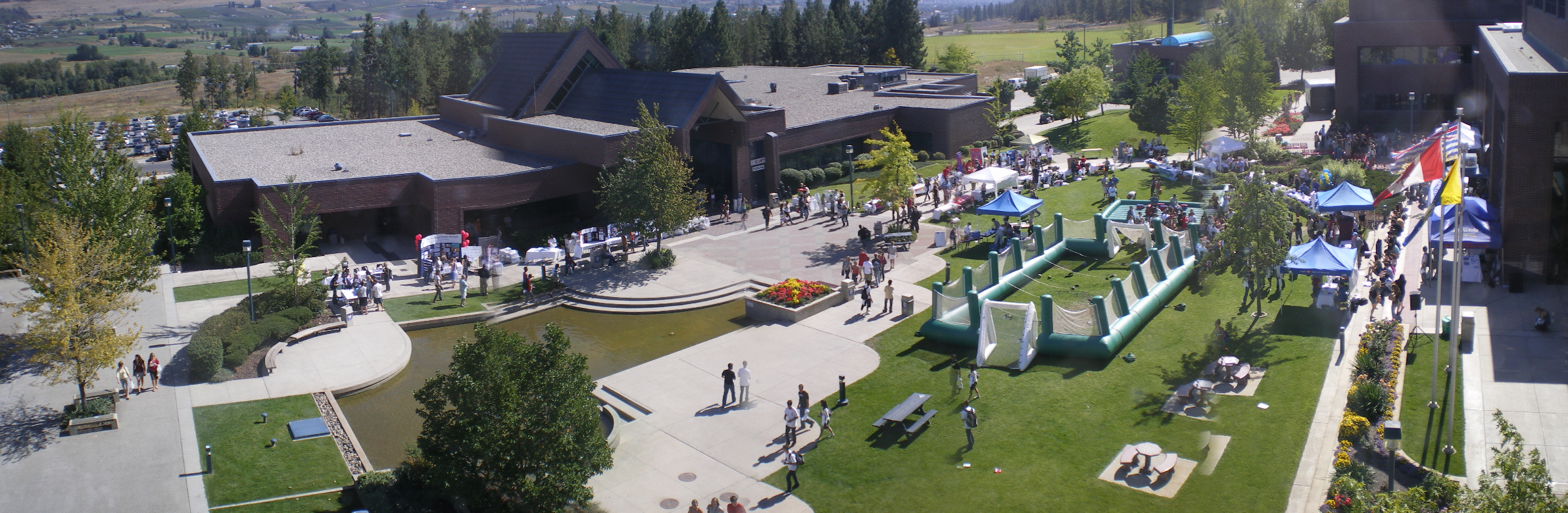 Here is the UBCO campus during 1st. year orientation.